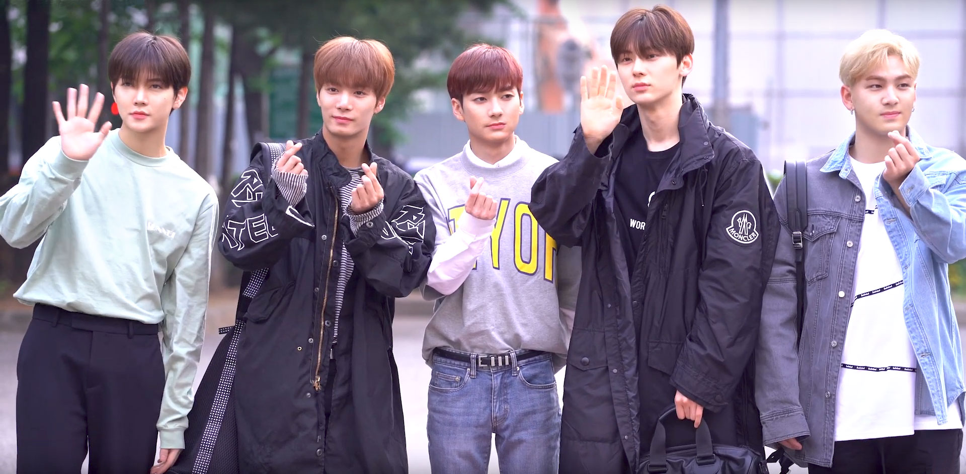 KBS-2TV ‘뮤직뱅크’ 리허설이 17일 오전 서울 영등포구 여의도 KBS 공개홀에서 열렸다.